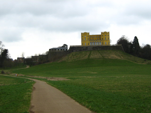 Below the Dower House, Stoke Park. The unusually coloured house looking down on the path up to Stoke Park. Formerly part of Stoke Park Hospital.